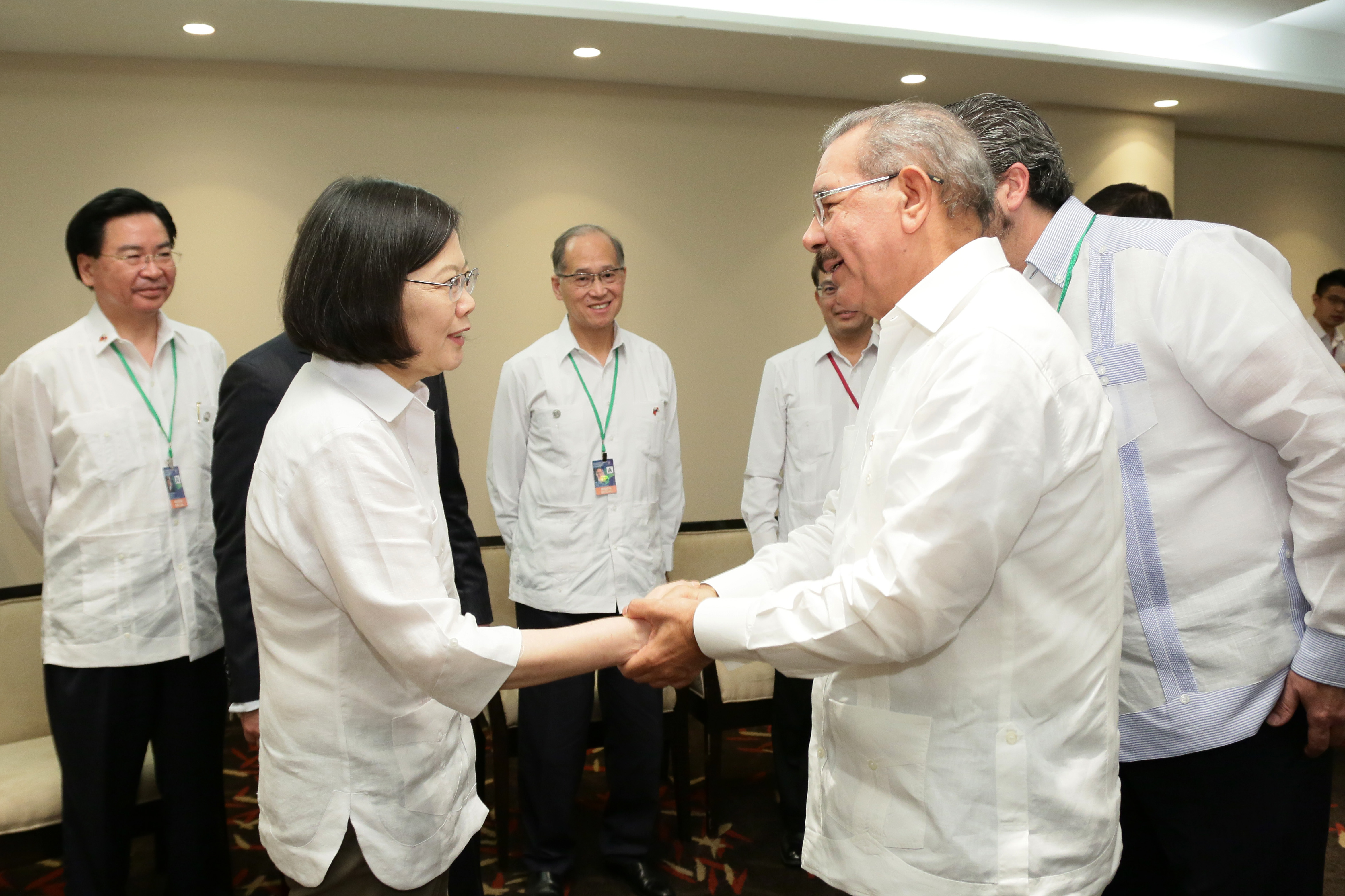 President Tsai meets with Dominican Republic President Danilo Medina Sanchez in Panama. (2016/06/26) La Presidenta Tsai mantiene un encuentro con el Presidente de la República Dominicana, Danilo Medina Sánchez, en Panamá. (2016/06/26) 授權方式及範圍：中華民國總統府│政府網站資料開放宣告 Authorization Method & Scope: Office of the President, Republic of China (Taiwan) | Government Website Open Information Announcement